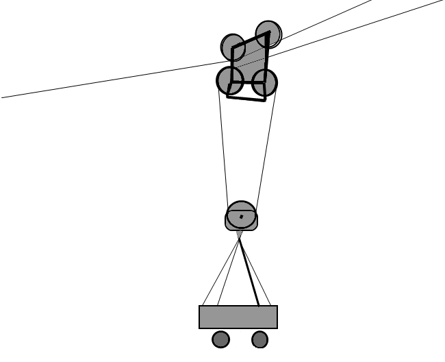 blondin